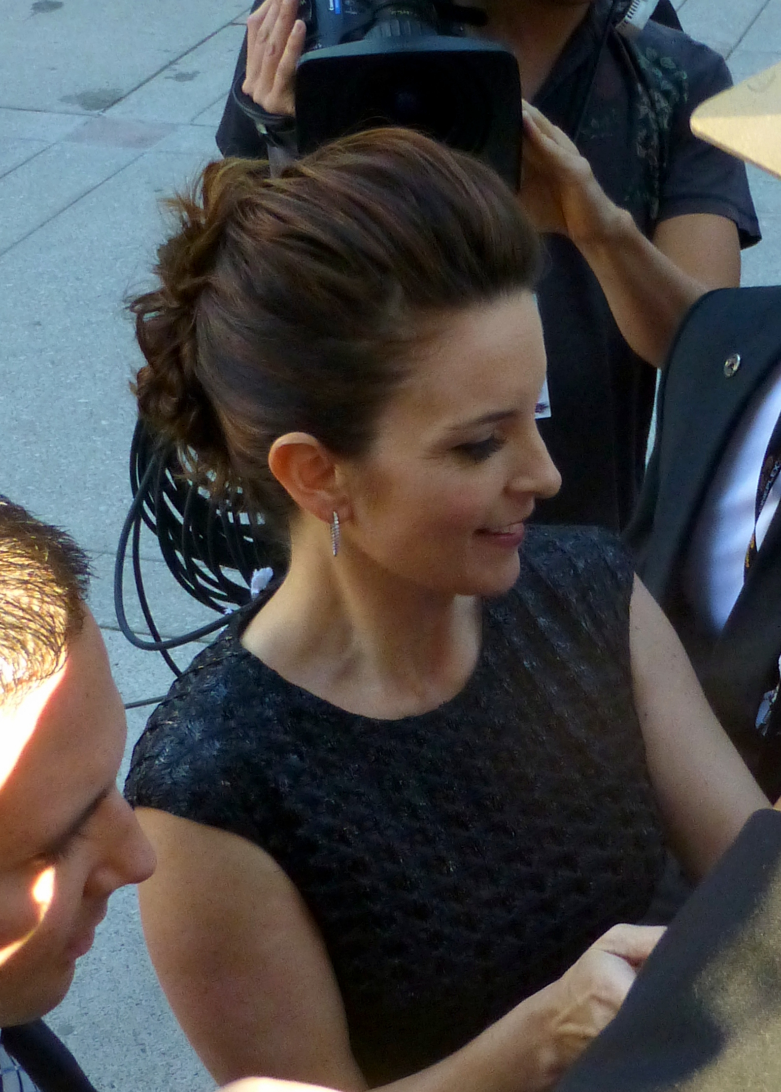 Tiny Fey at the premiere of This Is Where I Leave You, 2014 Toronto Film Festival